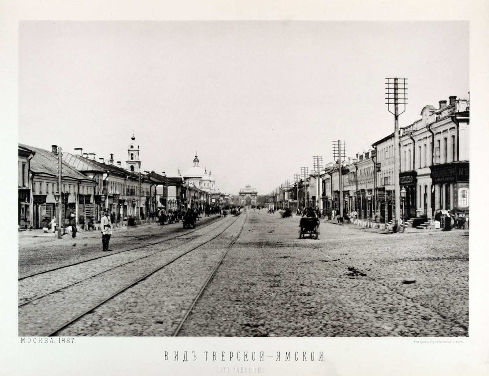 Plate 13: View of 1st Tverskaya-Yamskaya Street from Garden Ring to Tverskaya Zastava.